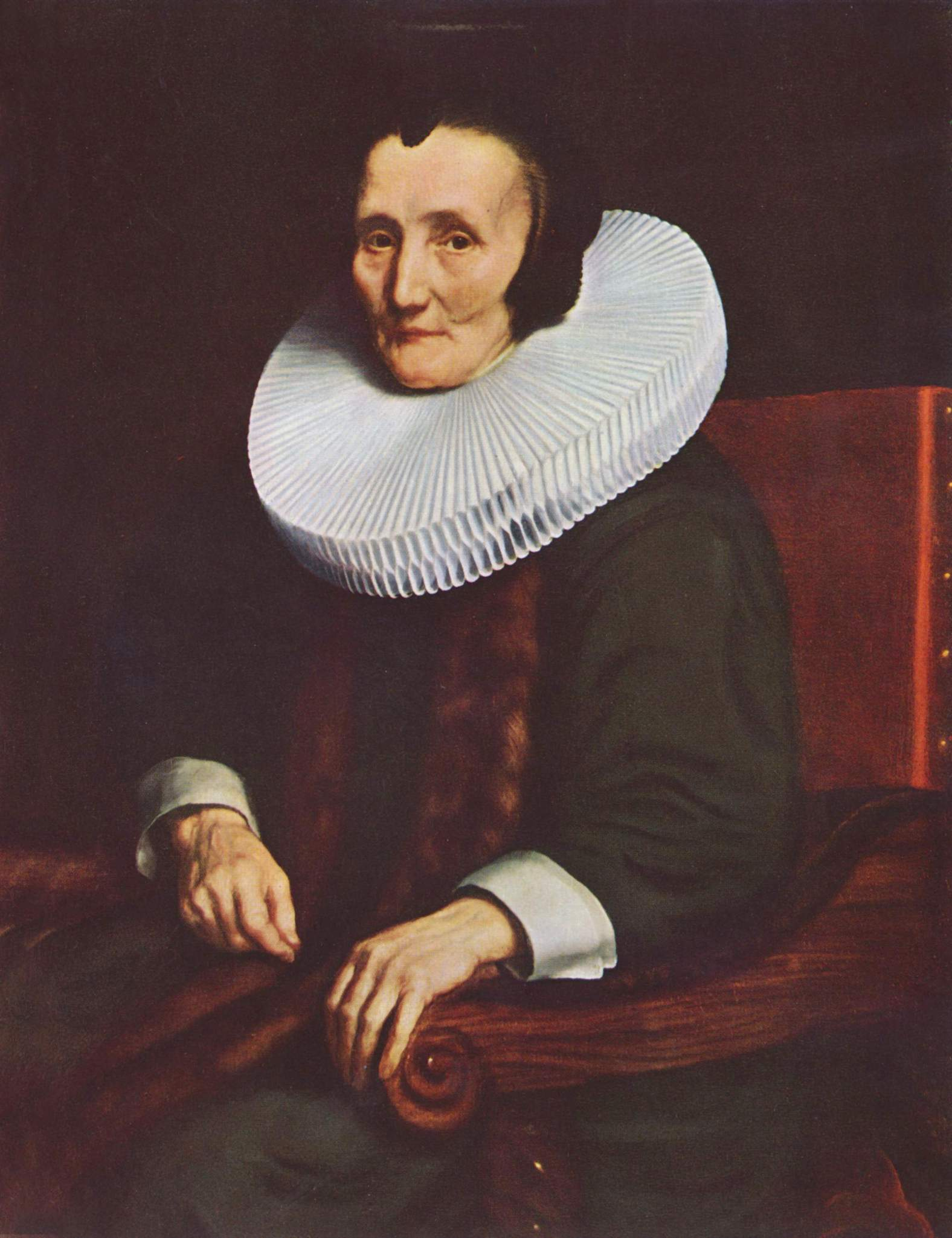 wife of Jacob Trip (1583–1672)